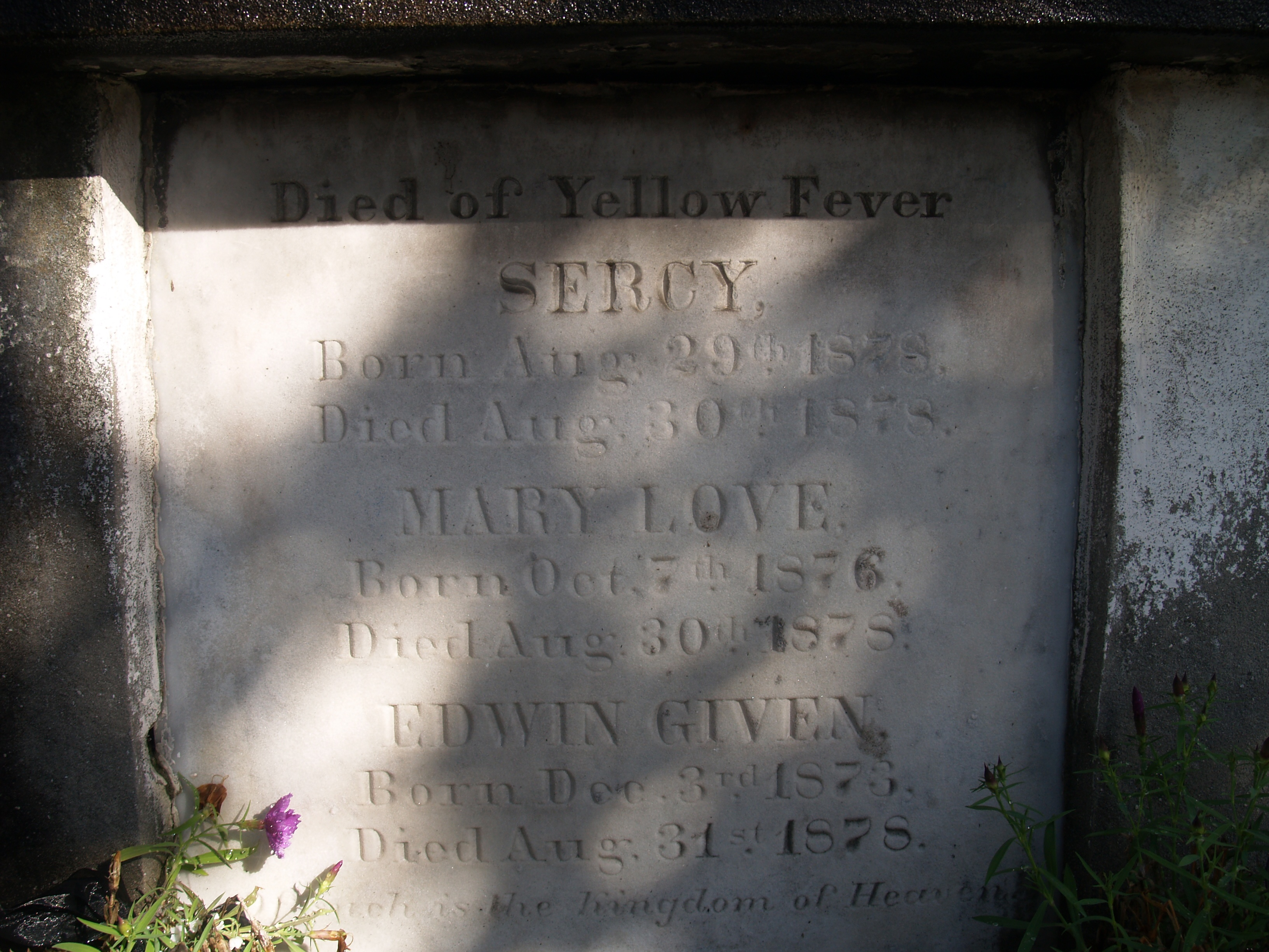 Yellow Fever Deaths Lafayette Cemetery 1 New Orleans